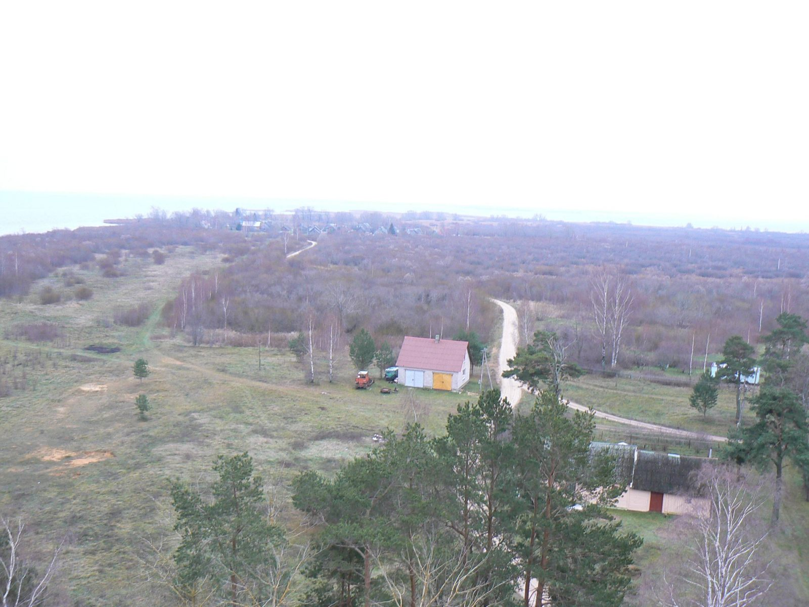 Island Piirissaare in Estonia